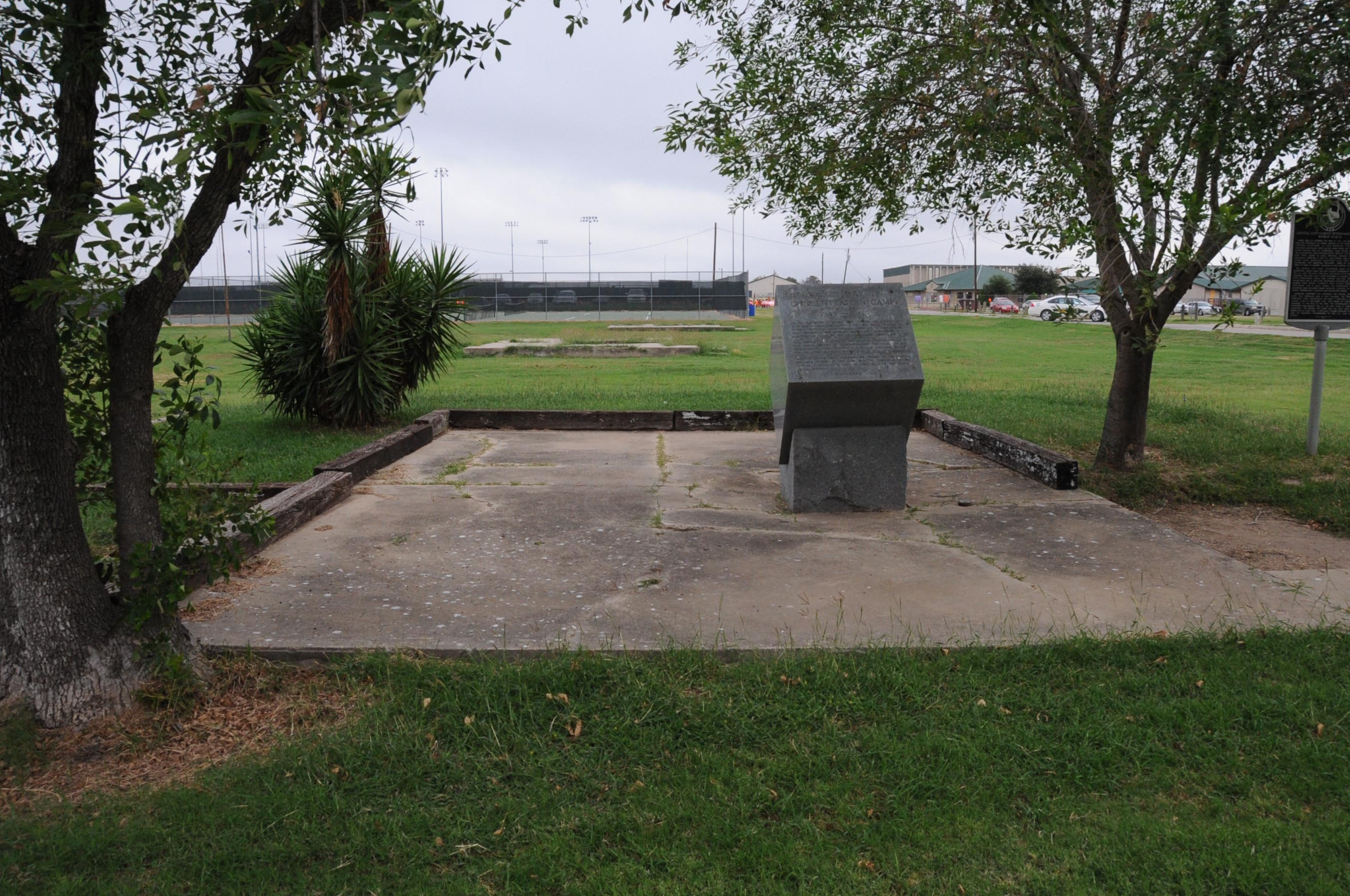 CAMP WAS USED TO INTERN FAMILIES OF JAPANESE, GERMAN, AND ITALIAN ETHNIC ORIGIN. IT OPENED IN DECEMBER OF 1943 AND WAS CLOSED IN FEBRUARY OF 1948. MANY OF THE FAMILIES INTERNED WERE AMERICAN CITIZENS. IT MAXIMUM OCCUPANTY WAS 3374 IN DECEMBER OF 1944. THE MEMORIAL IN THE CENTER STANDS ON THE FOUNDATIONS OF A 2 FAMILY COTTAGE. ALL OF THE BUILDINGS ARE GONE AND THE LOCAL SCHOOL DISTRICTS NOW OWNS THE SITE AND USES IT FOR SCHOOLS,, PLAYING FIELDS, AND STADIA.